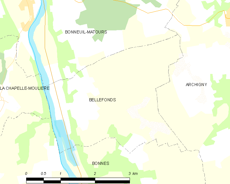 Map of French municipality Bellefonds